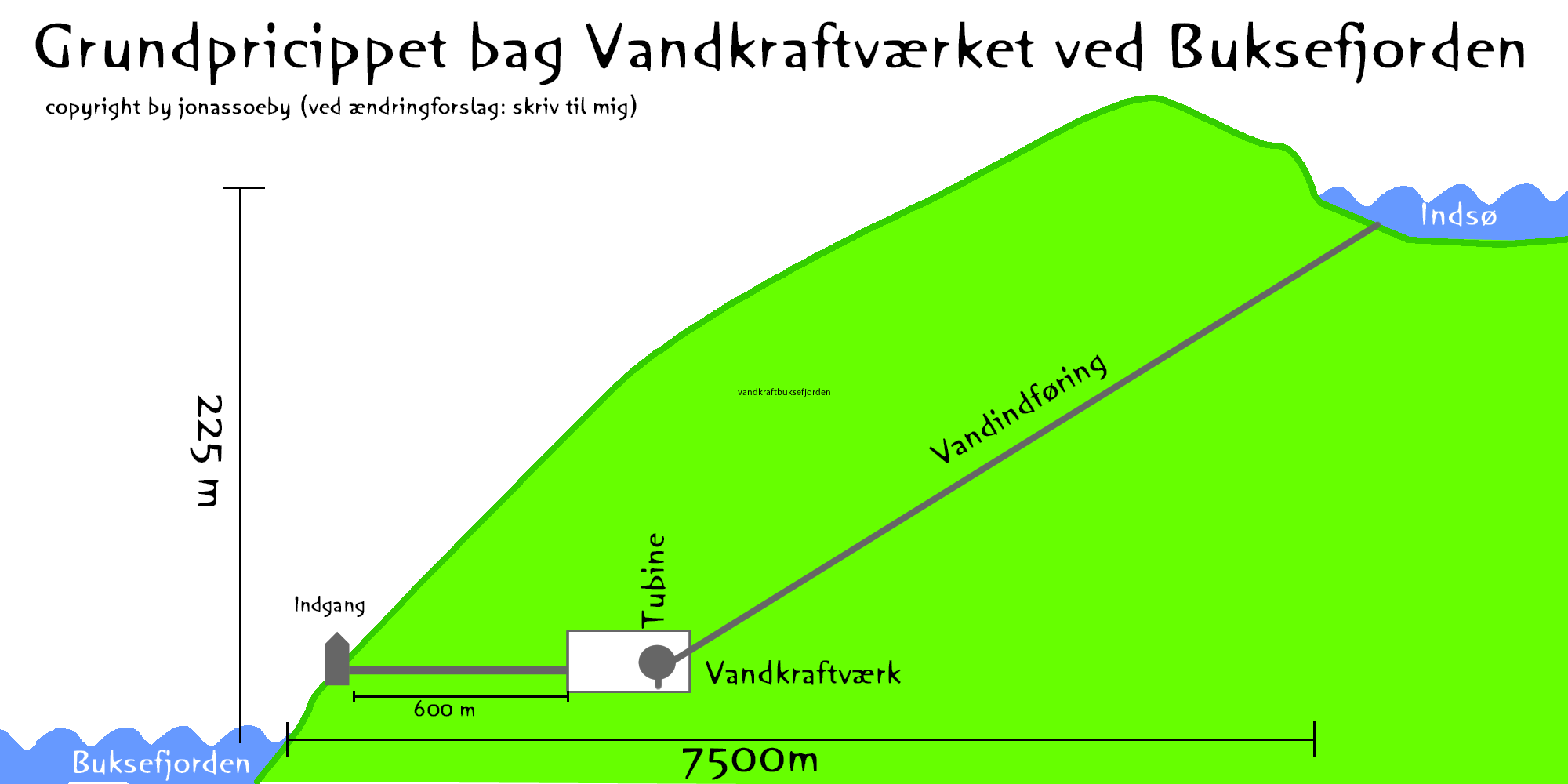 Water power in Greenland